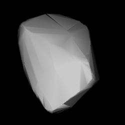 3D convex shape model of 838 Seraphina, computed using light curve inversion techniques. J. Hanuš, J. Ďurech, M. Brož, B. D. Warner (June 2011). "A study of asteroid pole-latitude distribution based on an extended set of shape models derived by the lightcurve inversion method". Astronomy and Astrophysics 530: A134. ISSN 0004-6361. arXiv